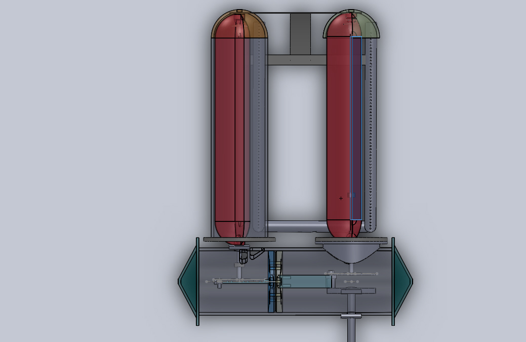 The top view of a Solar Miller layout of Stirling engine showing 2 rotating displacers (vertical in red) powering a double acting piston (horizontally connecting the two displacers.) The heat source in this variation, even though this was originally conceived as solar powered, is shown as a gas burner pipe visible to the right of the displacers. The radiator would cover the displacers, so it was omitted. The Miller cycle, in which working fluid is allowed past the piston at the end of the stroke, facilitates initial pressurization, eliminates pressure imbalances and pre-loads the upcoming power stroke.